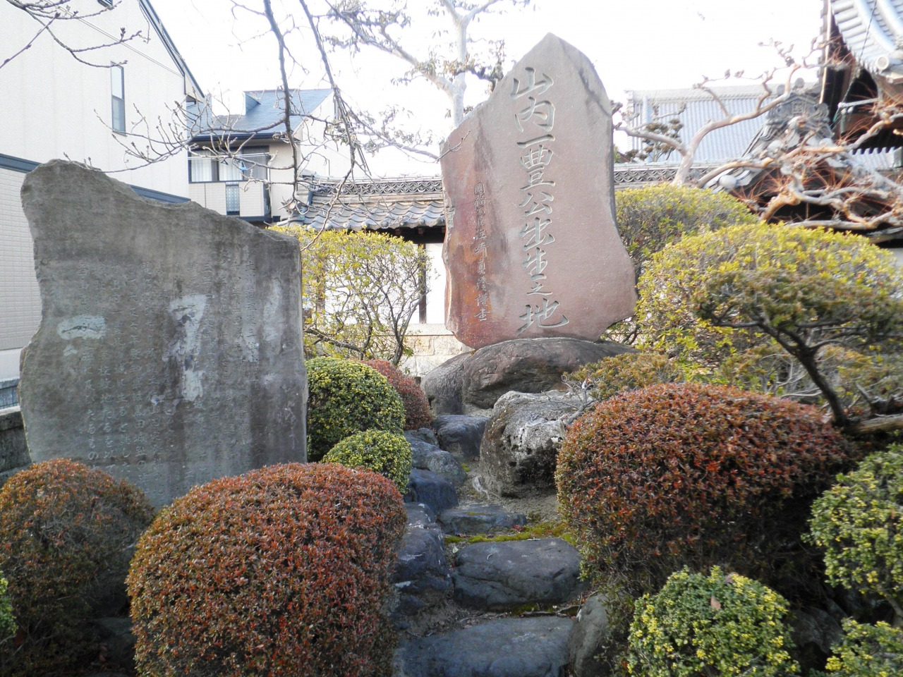 The monument of Yamauchi Katsutoyo's birthplace at Hōren-ji in Ichinomiya, Aichi.